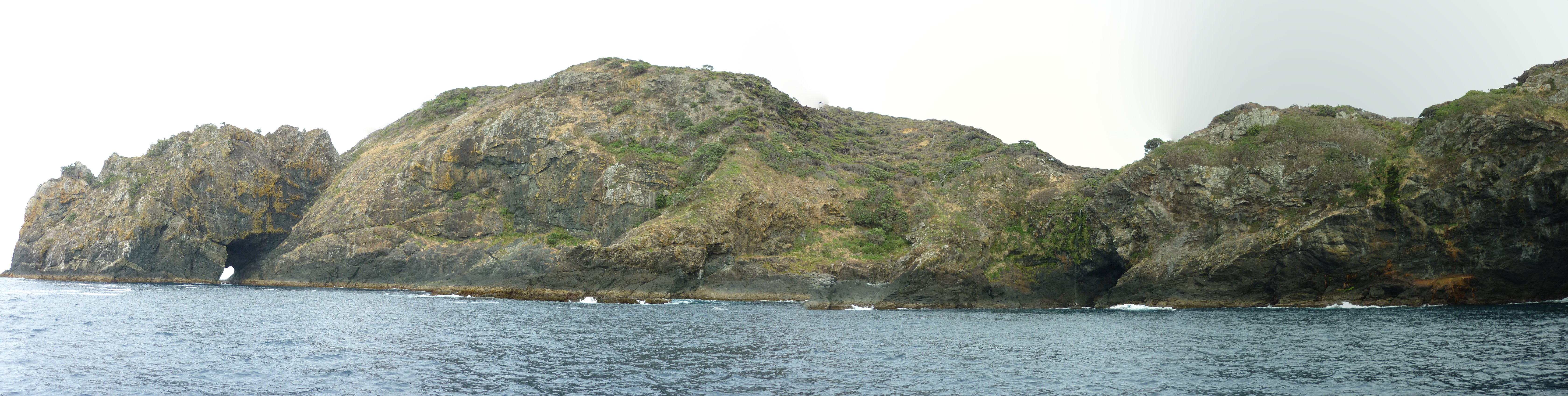 Tasman Bay, Three Kings Islands. The waterfall where Tasman's crew visited and attempted to collect fresh water on 6 January 1643 is visible falling over the large cave-mouth to the right of center.